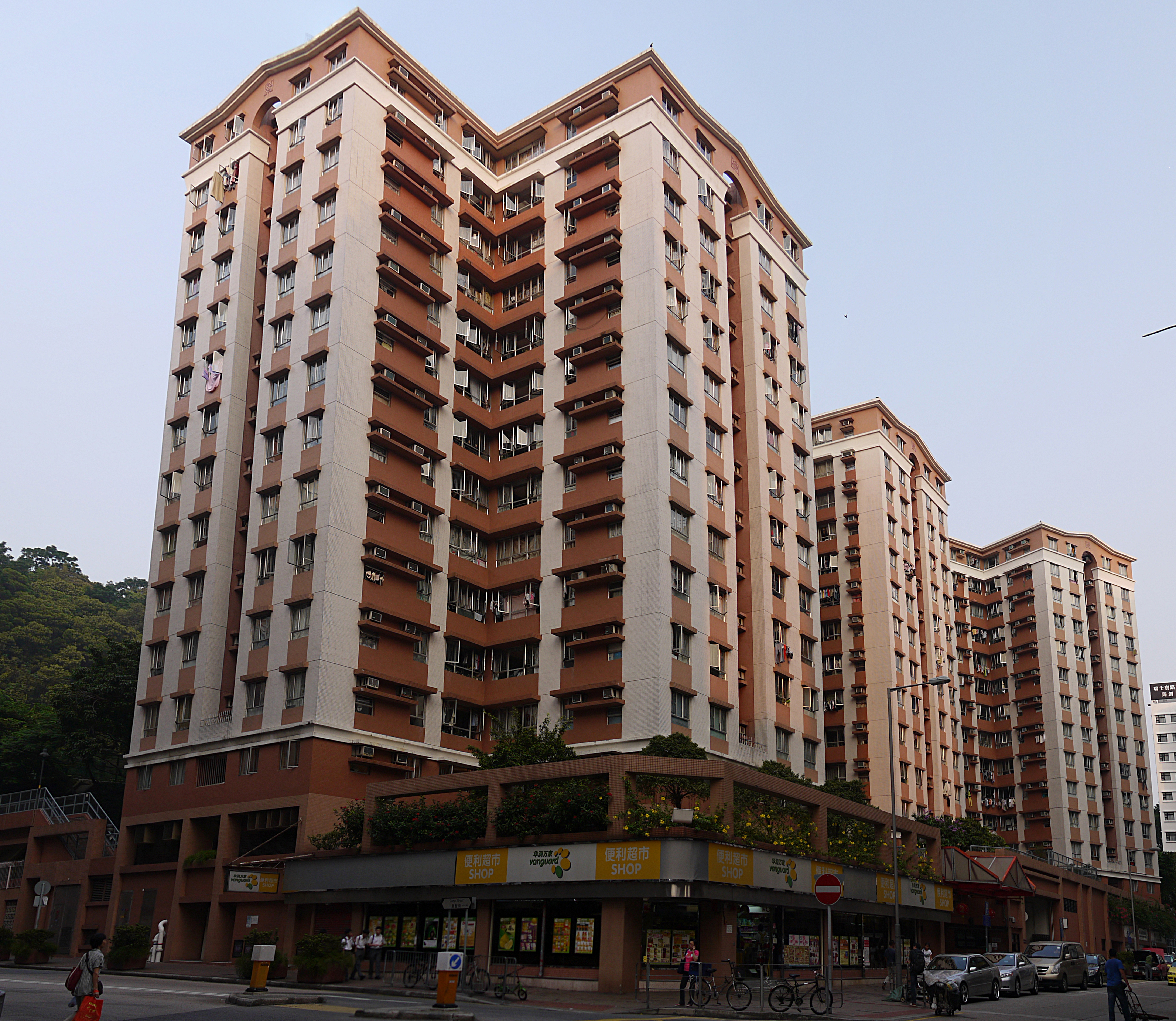 Cronin Gardens